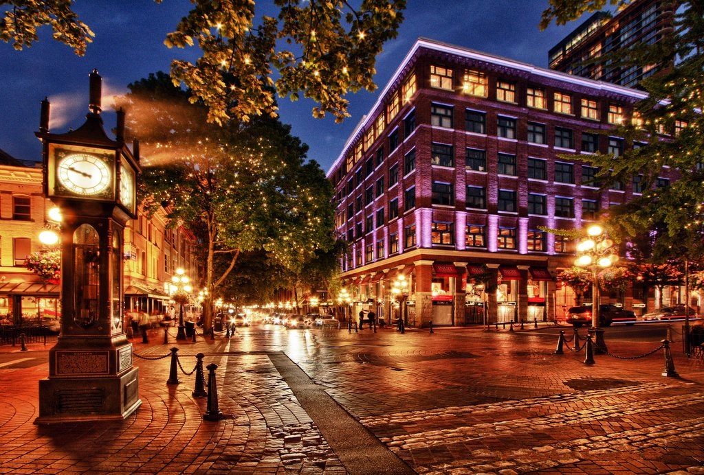 Dusk HDR image of the Steam Clock in Vancouver's historic Gastown District